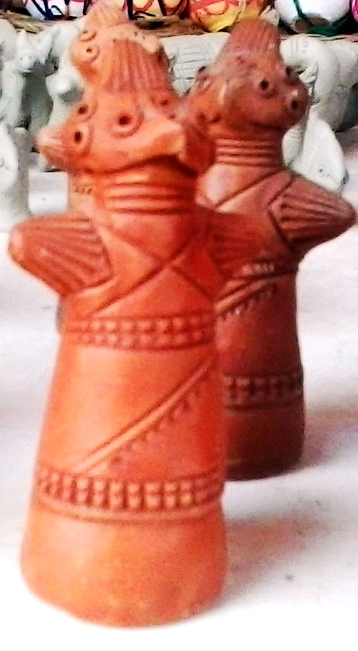 Baishakhi fair, Sonargaon, Narayangong